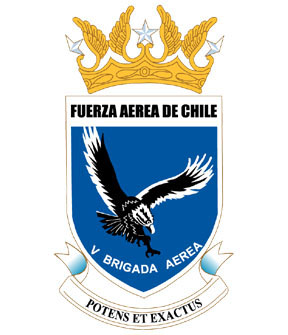 5th Aviation Brigade FACH